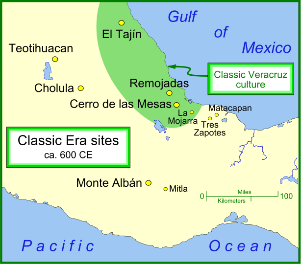 A map of Mesoamerican Classic era sites.